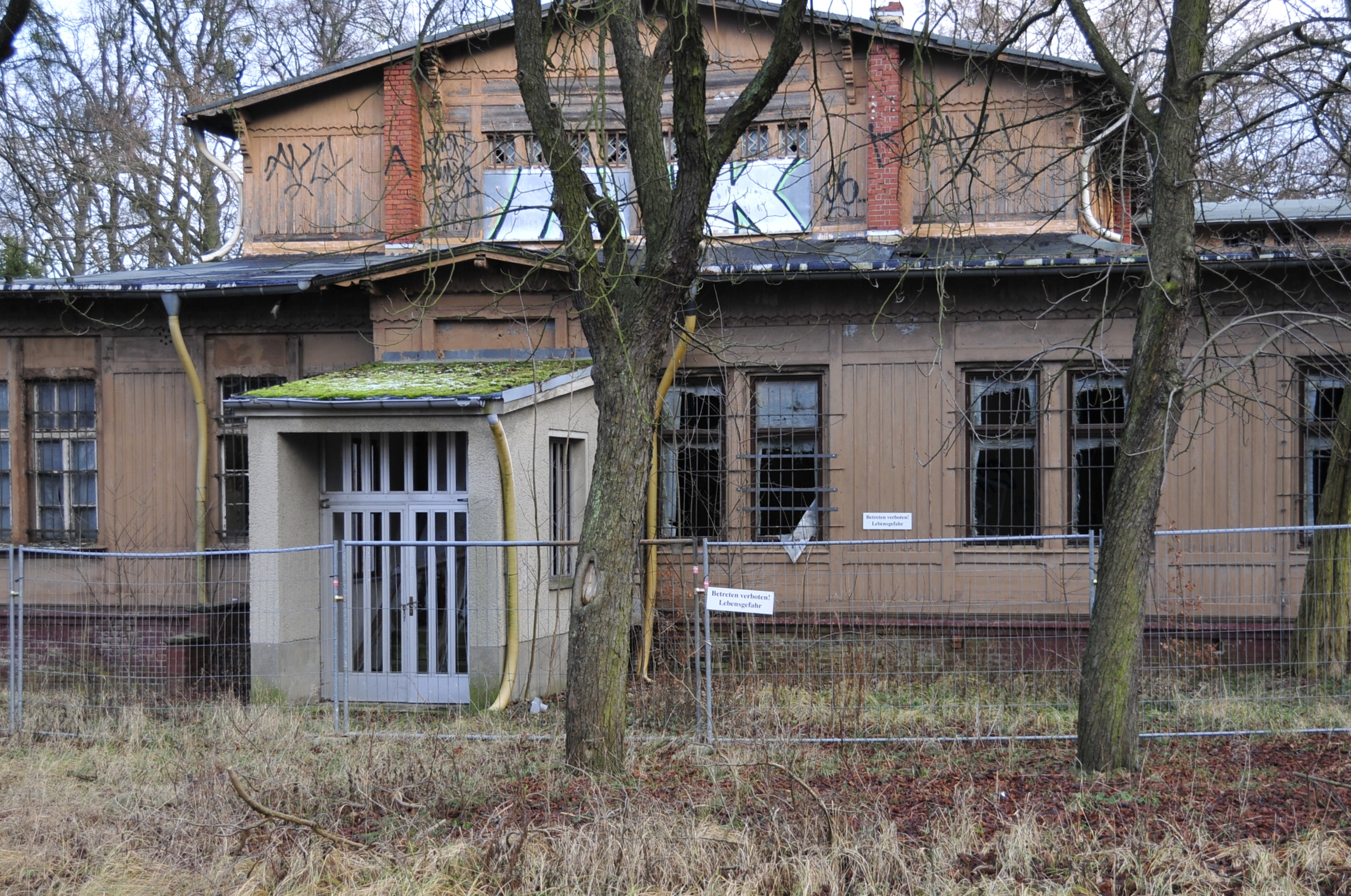 Officers Mess Dallgow-Döberitz 2012, Main Entrance